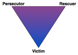 Karpman Drama Triangle